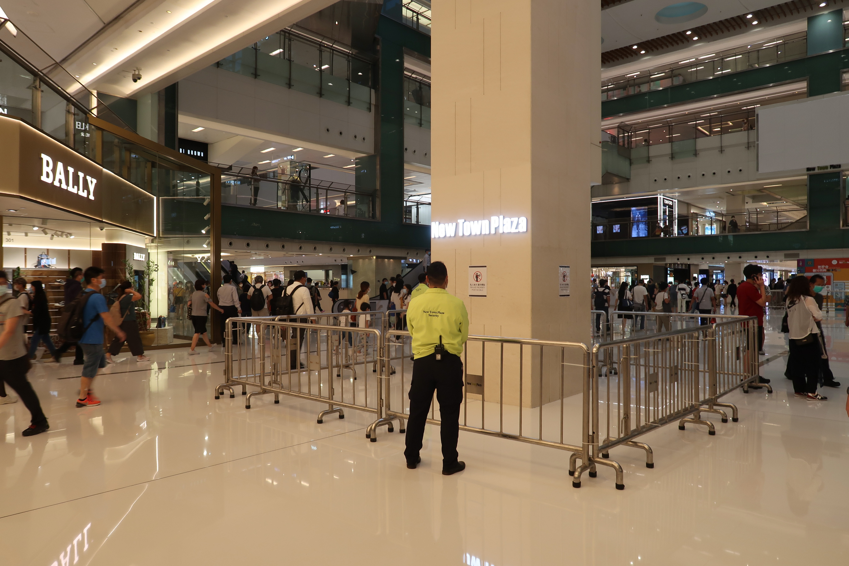 New Town Plaza L3 entrance wall blocked